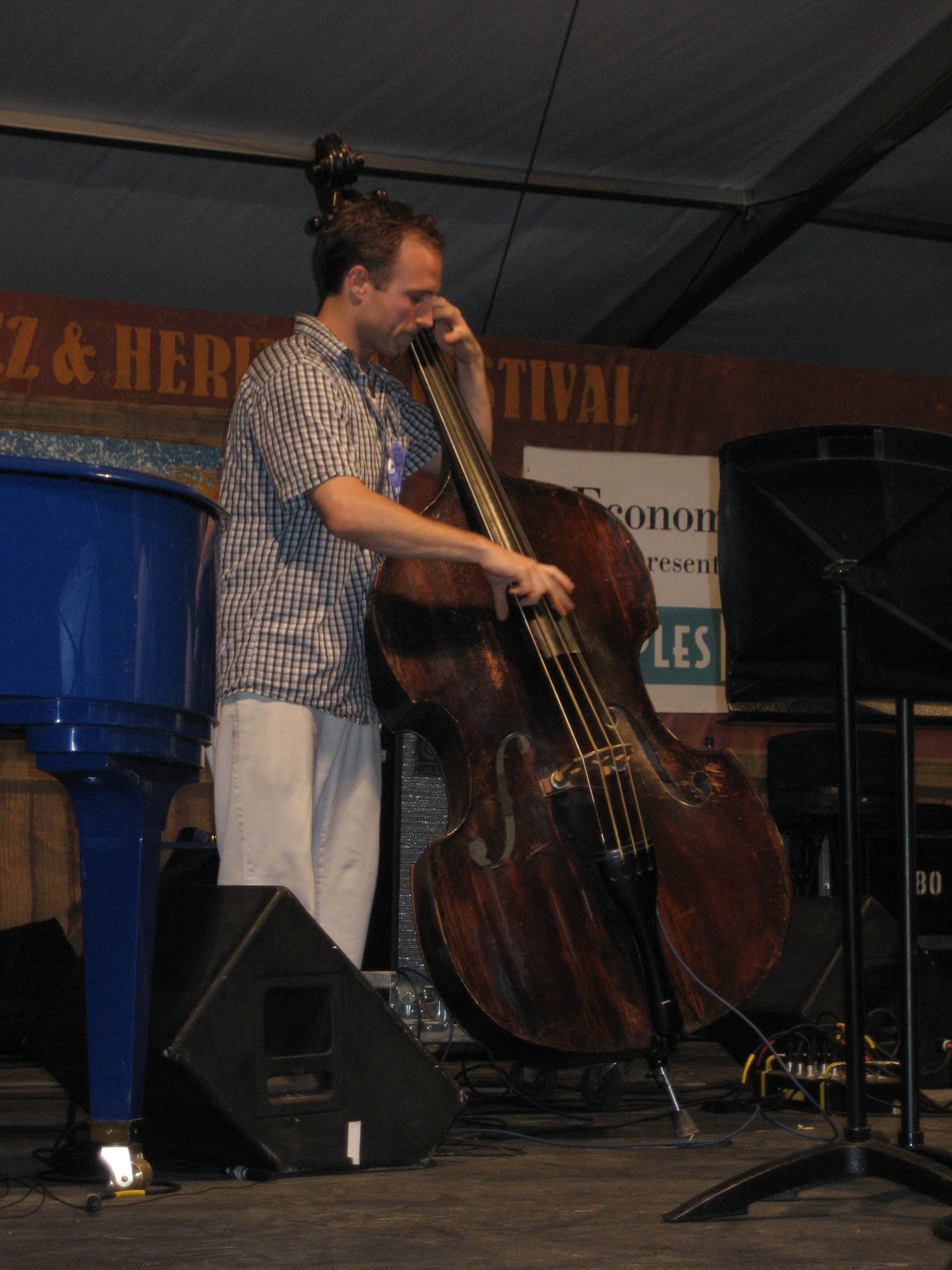 String bass player at "Economy Hall" tent, New Orleans Jazz & Heritage Festival